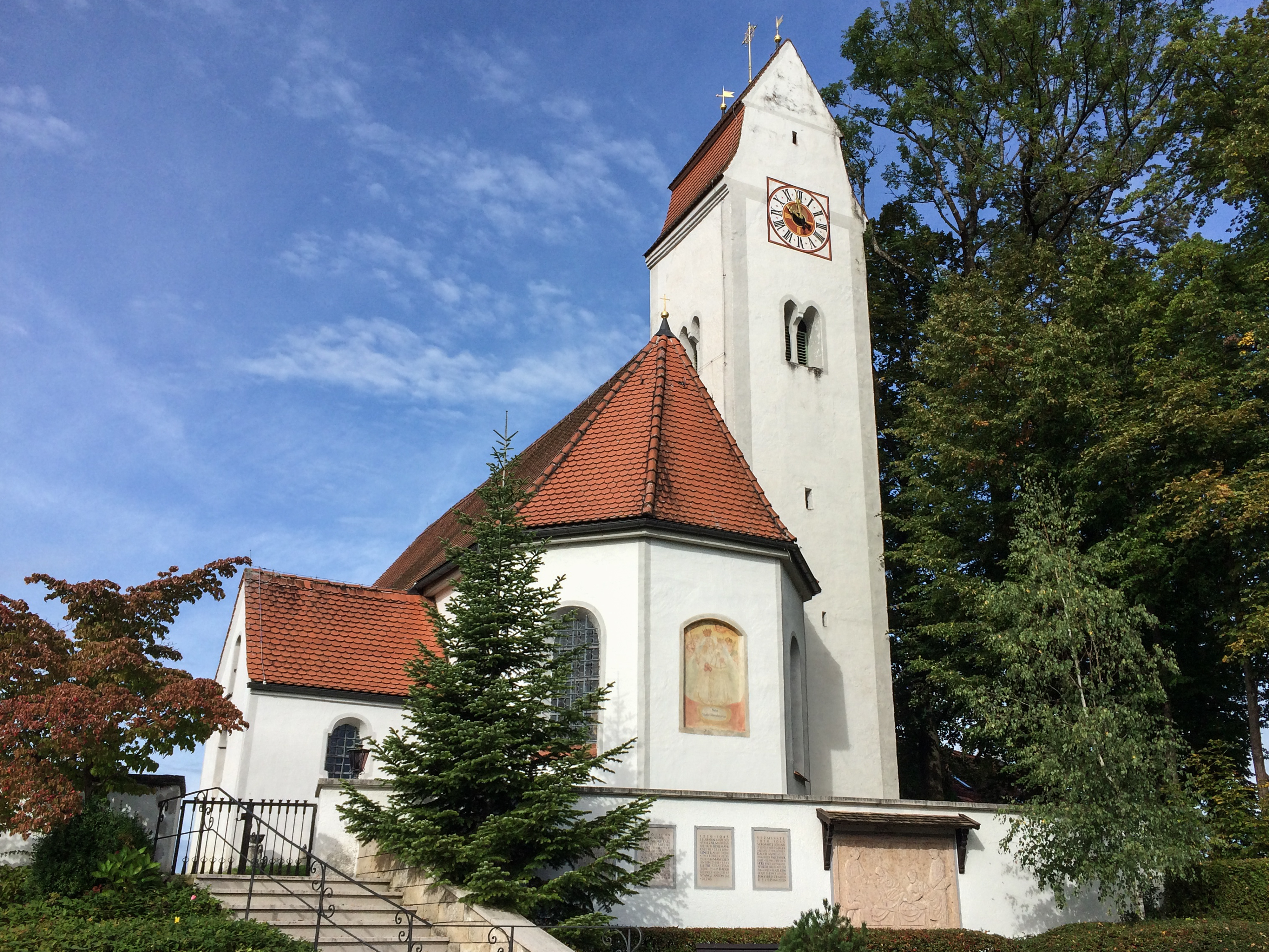 This is a photograph of an architectural monument.